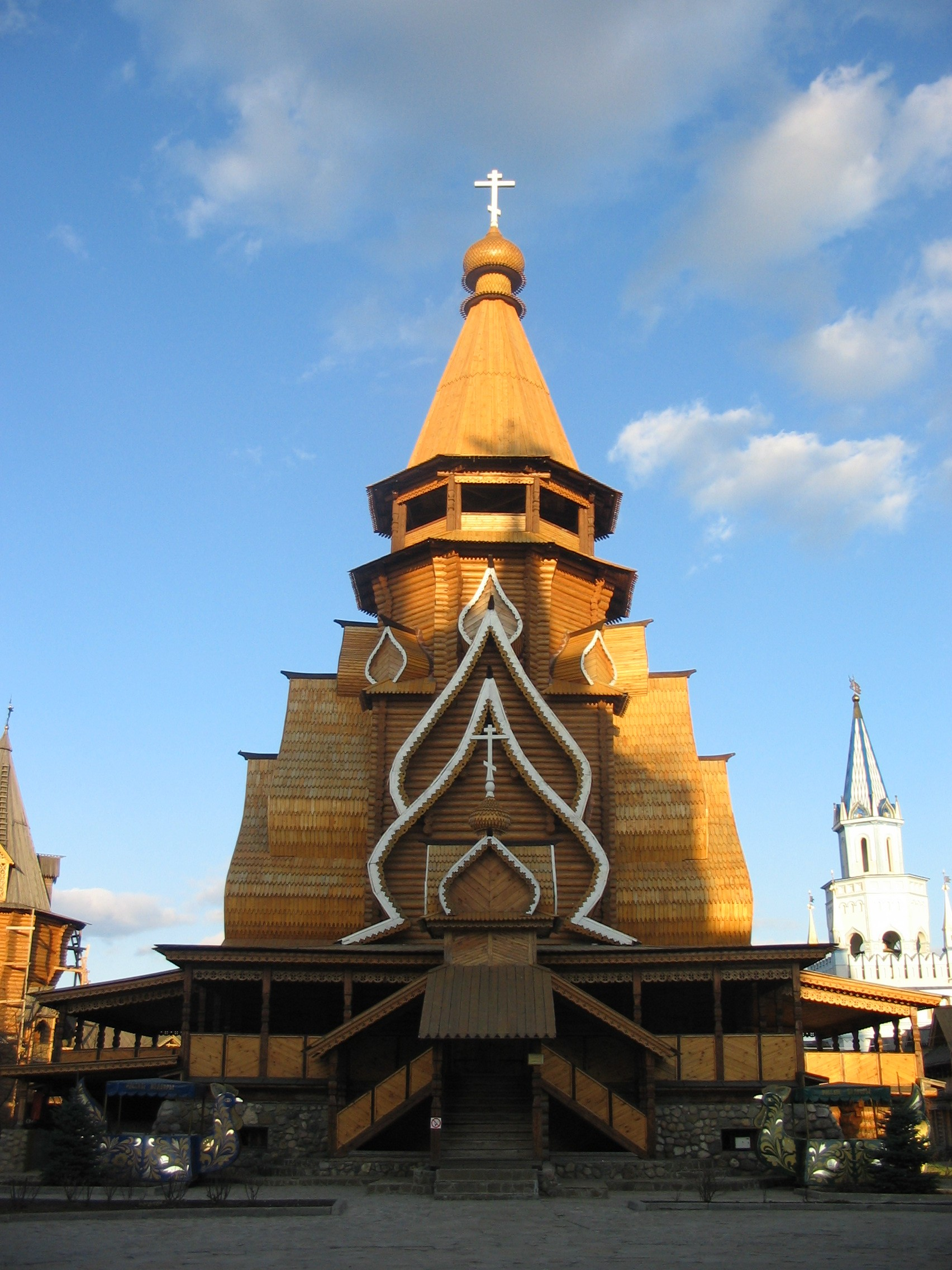 Church of St. Nikolas in the Izmaylovo Kremlin